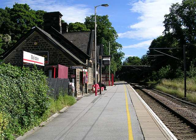 Baildon Station